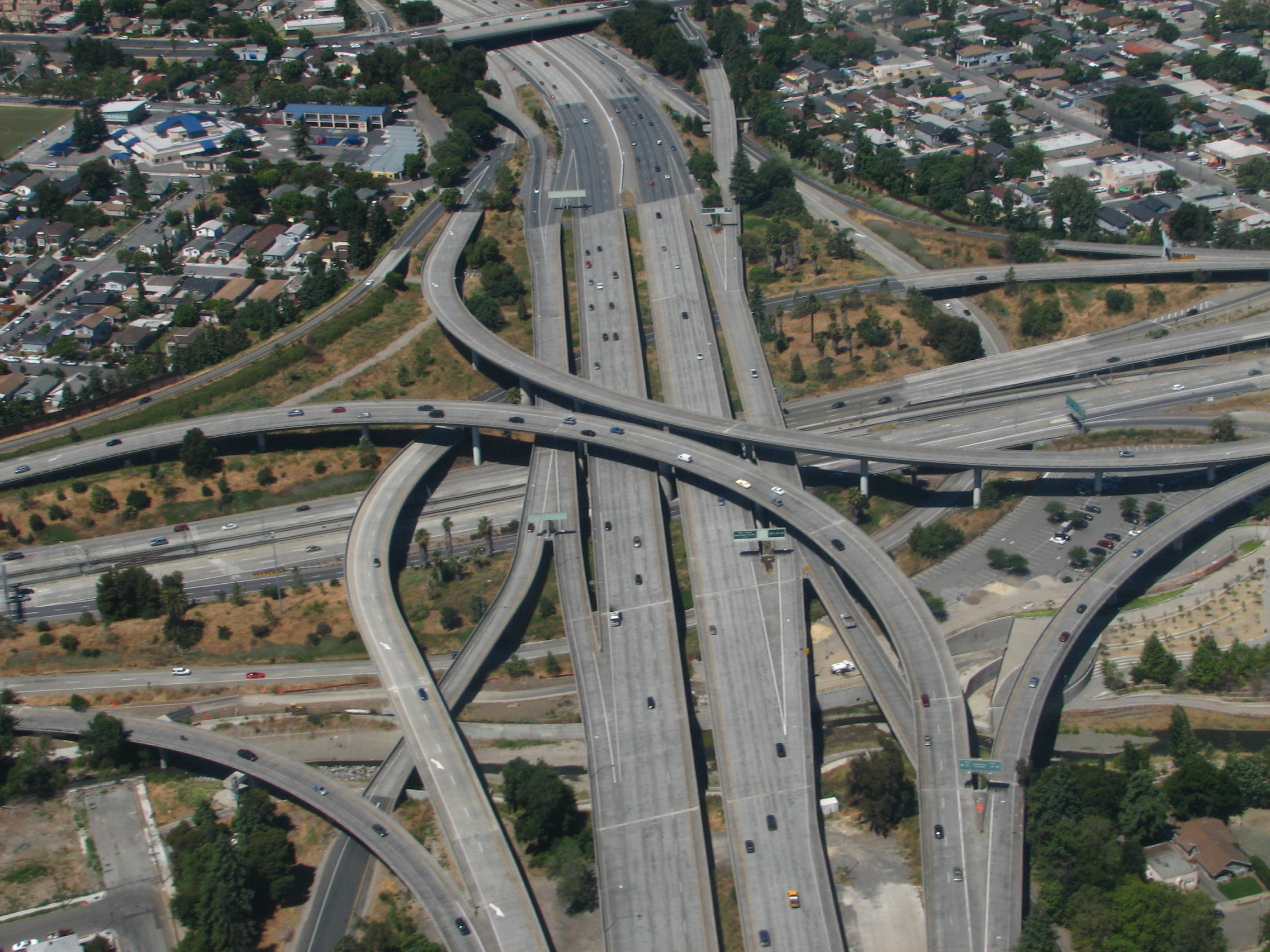 An aerial view of the interchange of I-280 and State Route 87 in San Jose, California, United States.